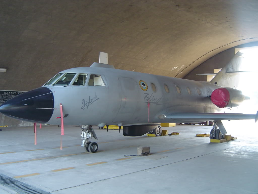 A Dassault Falcon 20 (DA-20) jet aircraft, fitted with electronic warfare equipment and nicknamed "Iqbal" after a Pakistani war veteran, is parked in a hangar at a Pakistan Air Force airbase. It is operated by No. 24 Blinders Squadron.